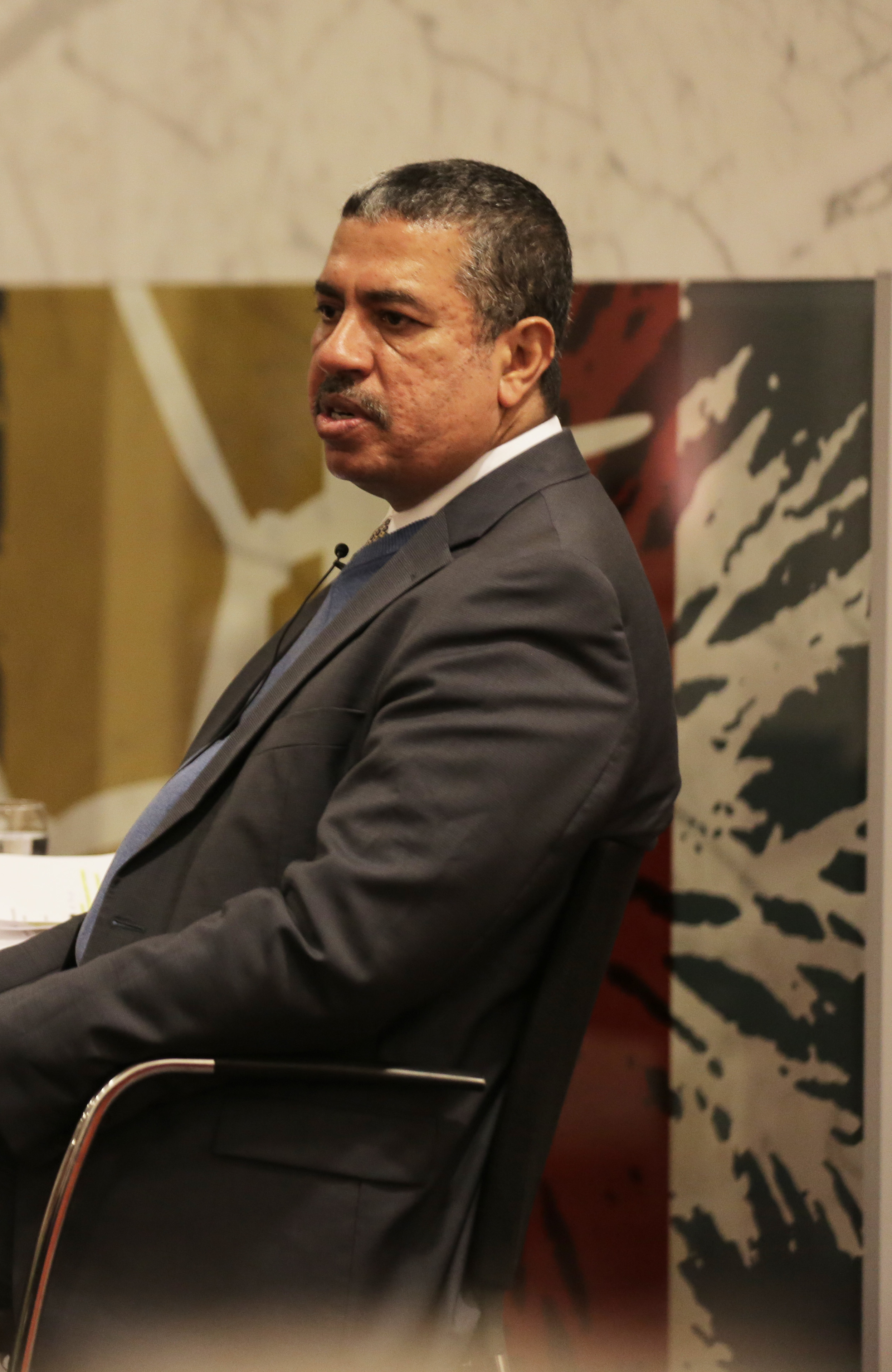 Yemen: Mapping the Way Forward, 14 November 2016, The Royal Society, London, cht.hm/2fzUT9n